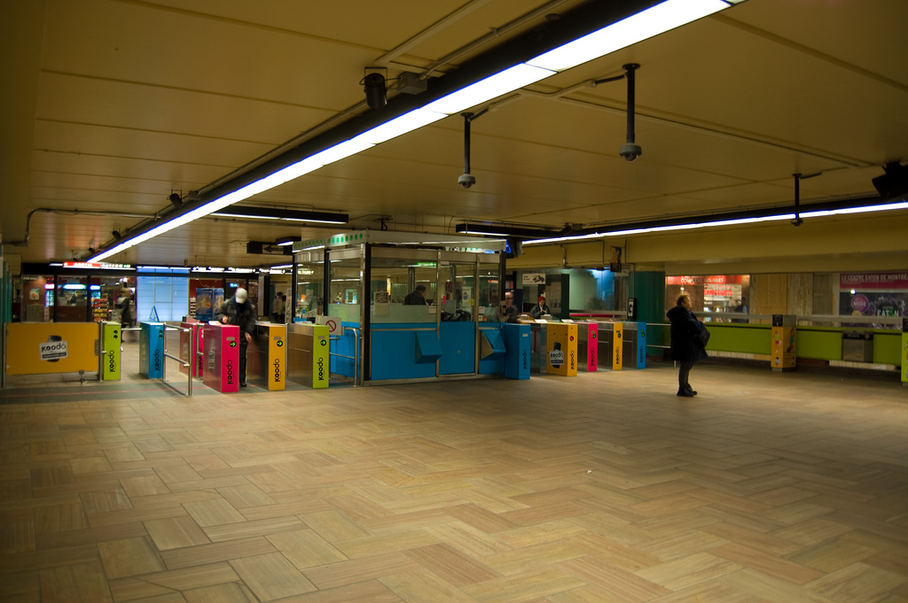 Concourse of McGill Montreal Metro Station 中文（香港）: 蒙特利爾地鐵麥基爾站大堂